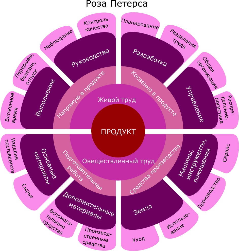 Peters' rose